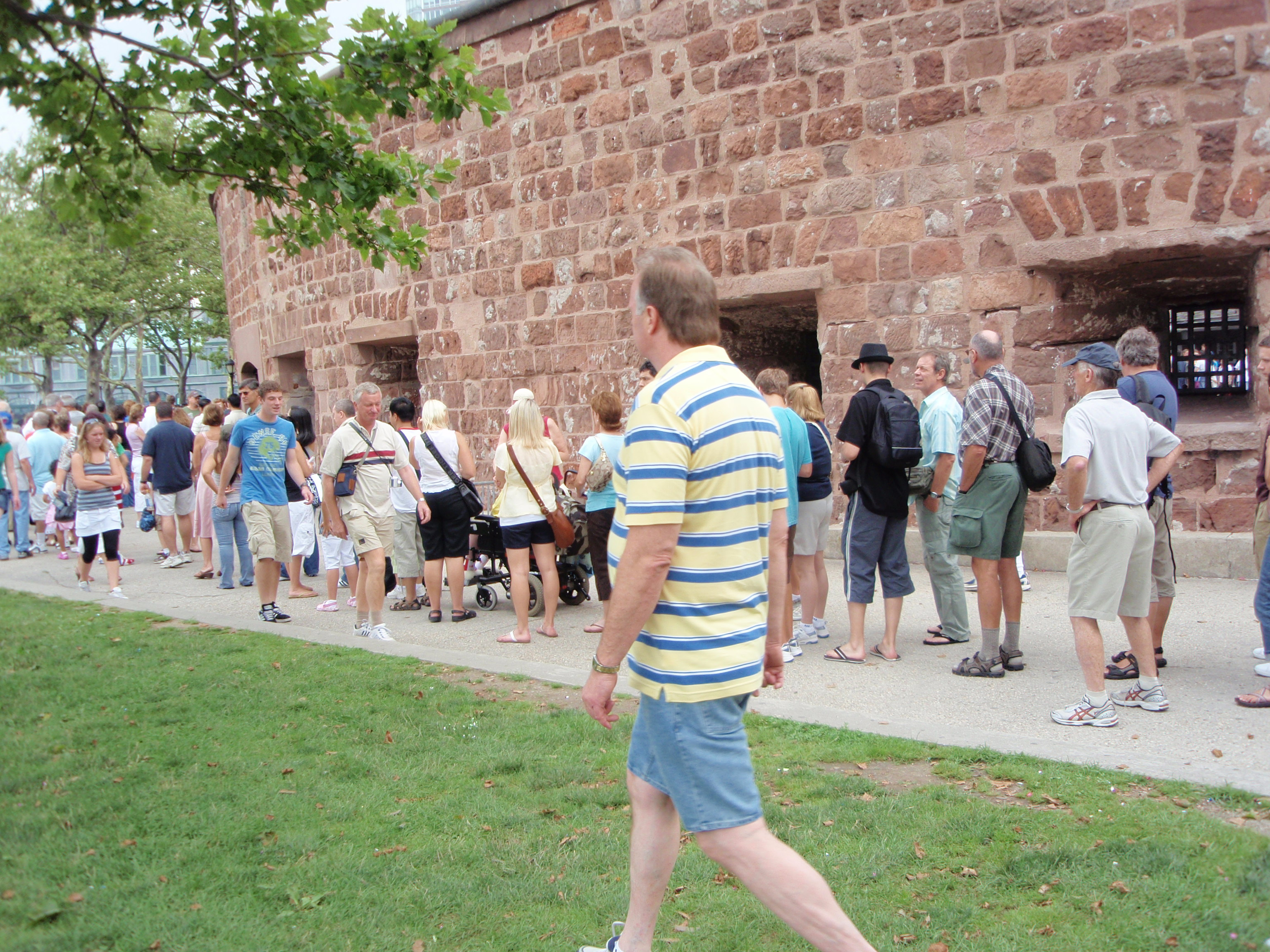 Queueing up outside Castle Clinton in Battery Park, New York City.